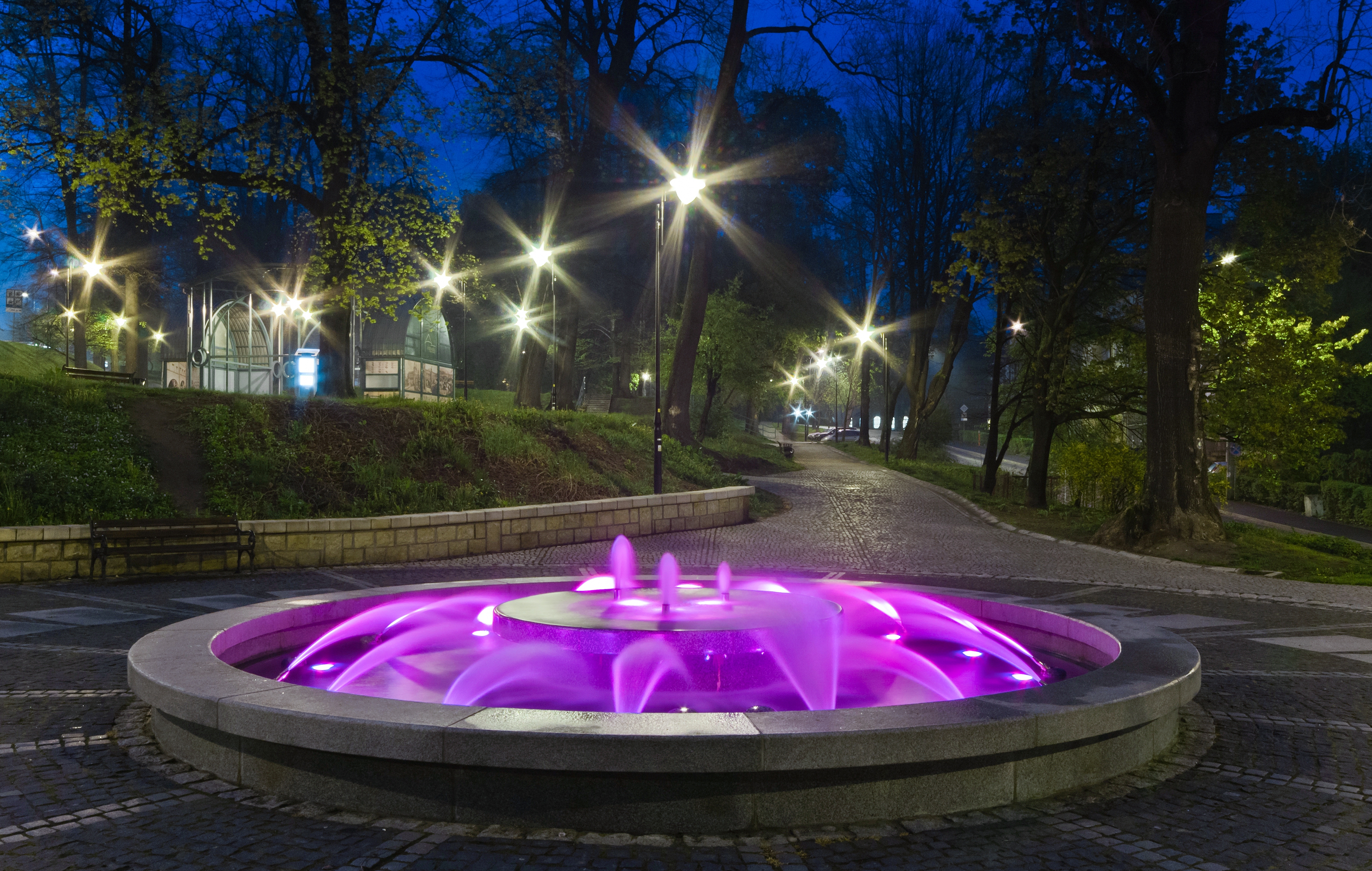 Illuminated fountain at the Traugutta Street in Kłodzko